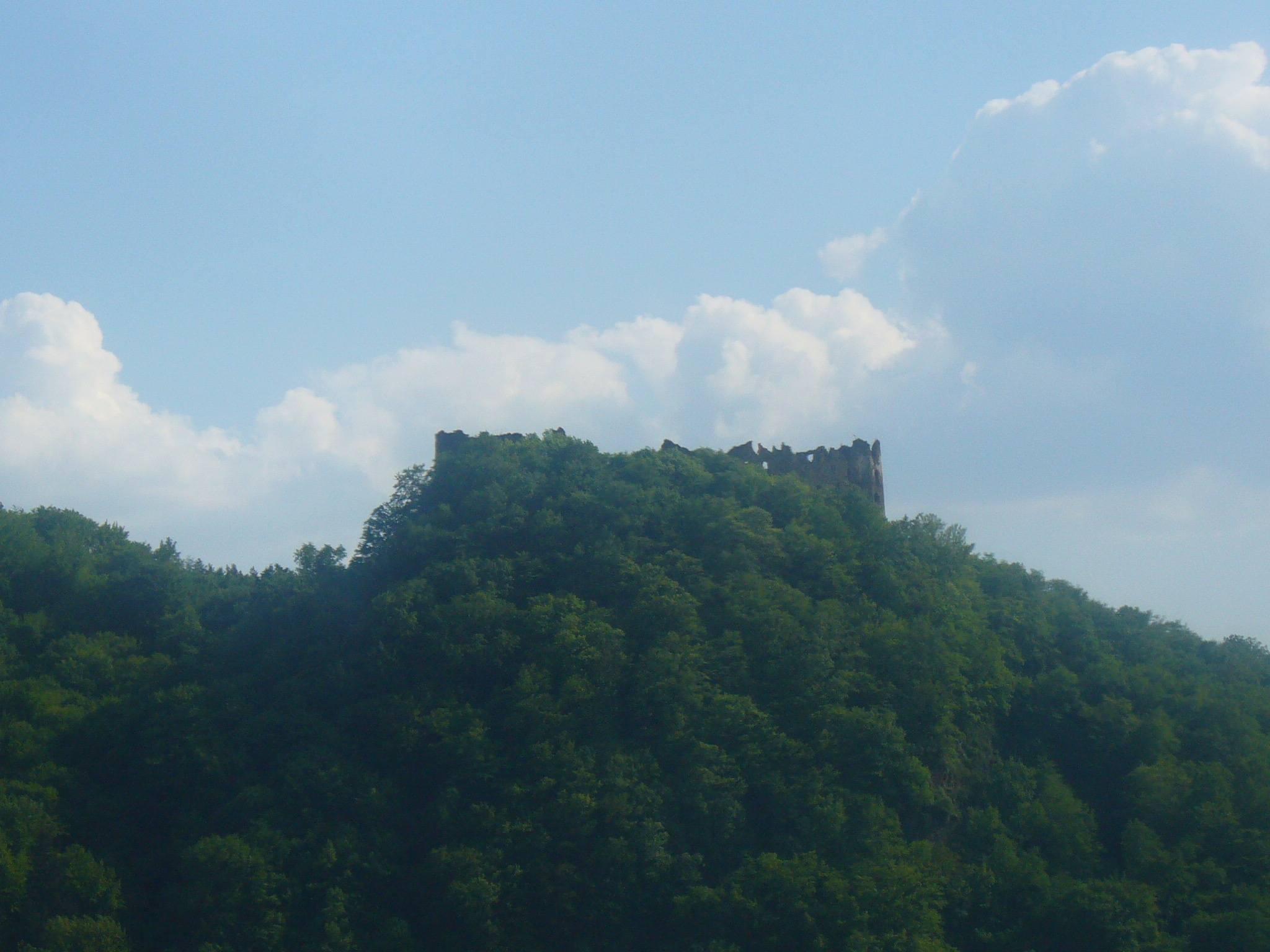 Ruins of Šášov castle. This medium shows the protected monument with the number 613-1266/0 (other) in the Slovak Republic.